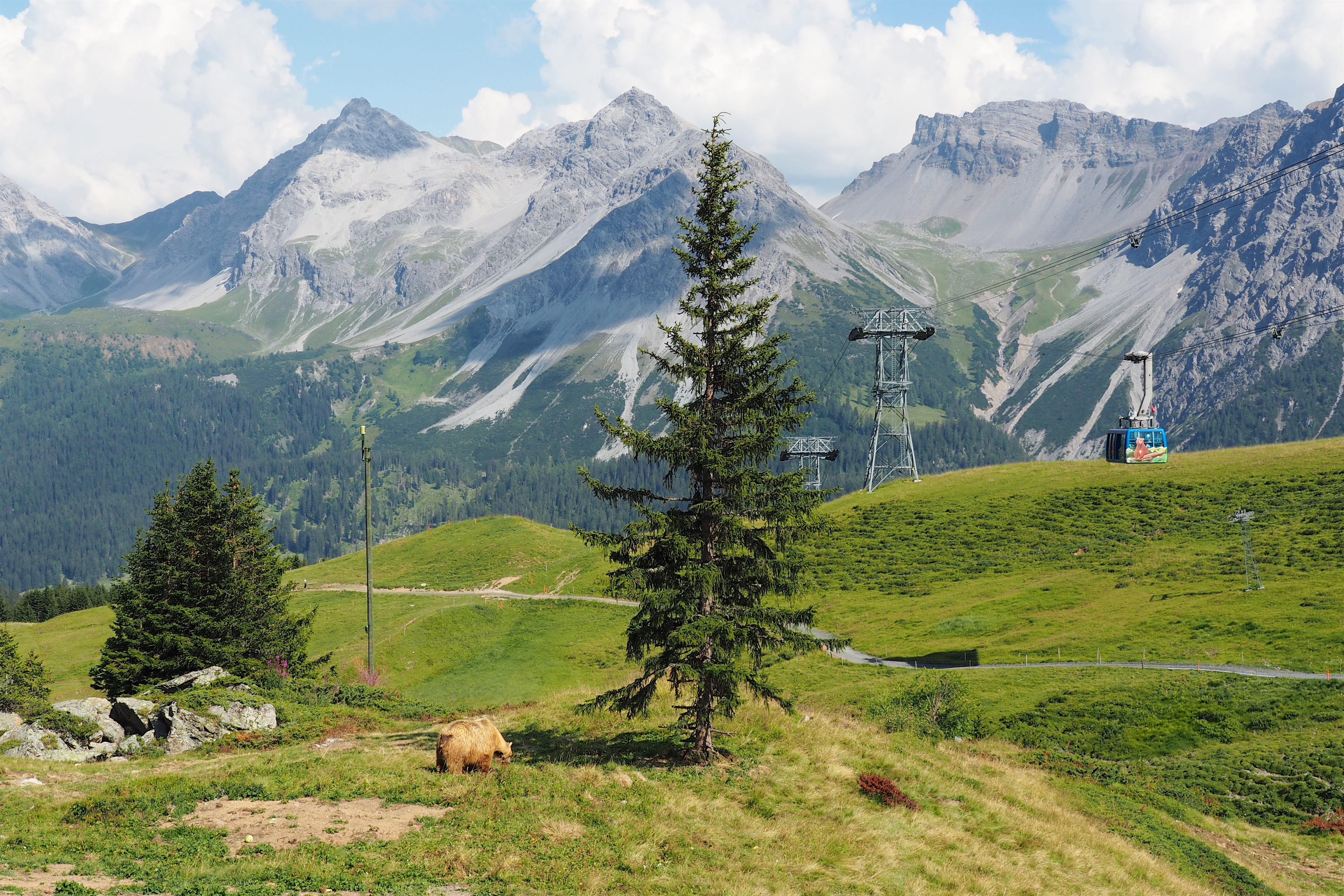 Bear "Napa" at Arosa Bärenland (bear sanctuary)